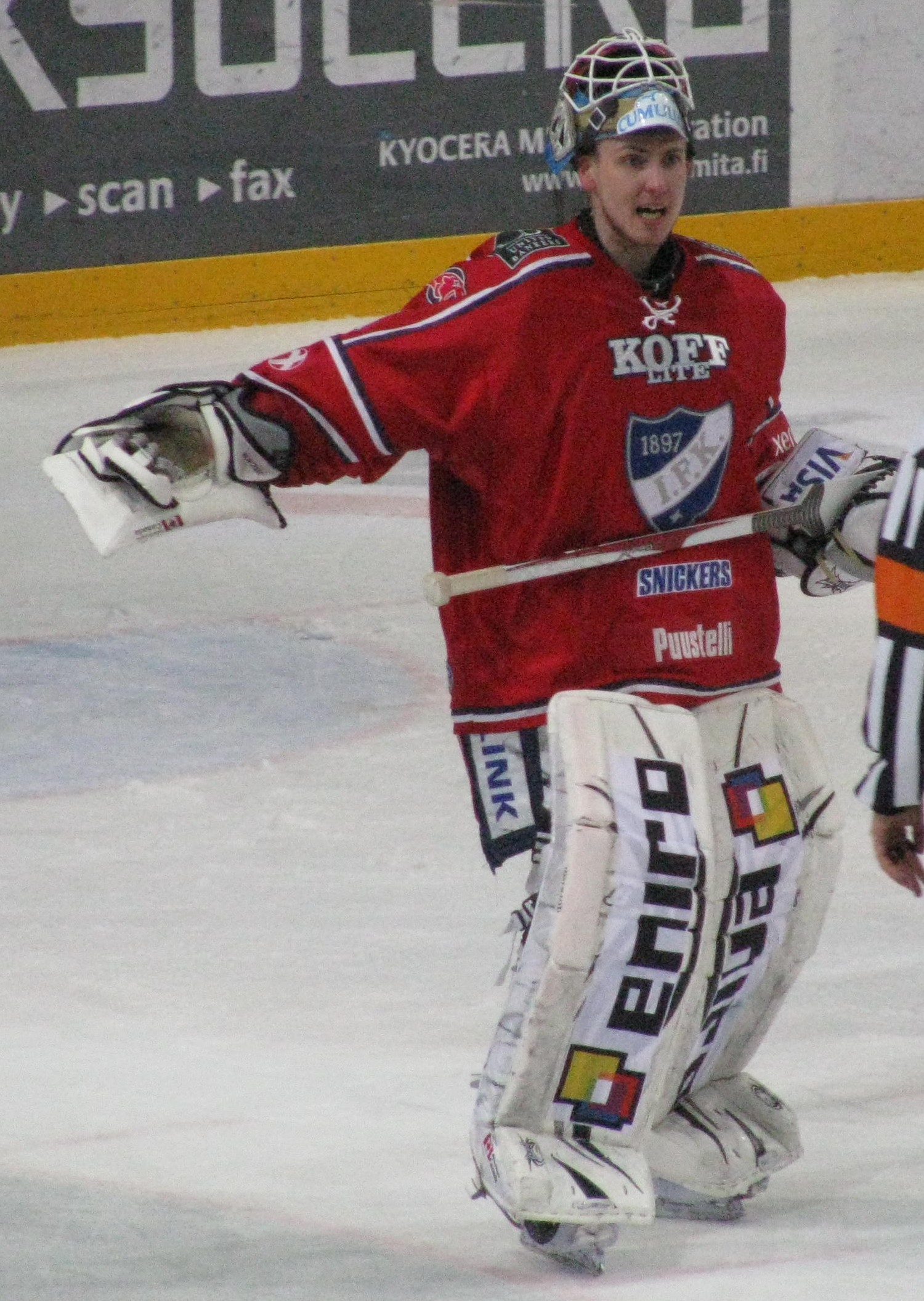 Mika Noronen (HIFK) in the game against Ässät.